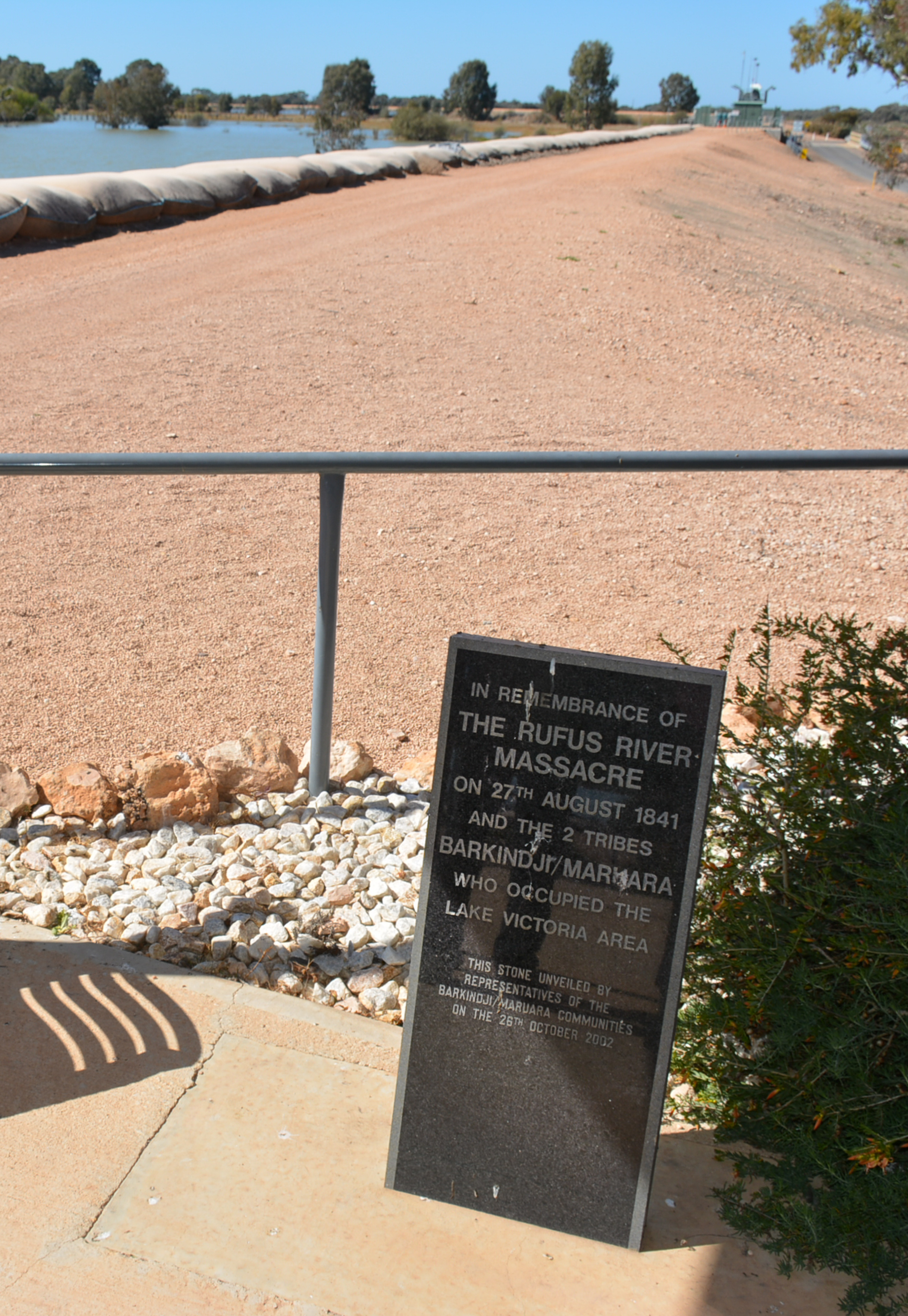 The memorial marks the Rufus River Massacre in 1841 which occurred near this location. The memorial is on the embankment which regulates the water flowing from Lake Victoria into the Rufus River.